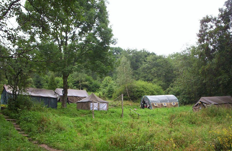 Tent base in Łopienka, Poland.